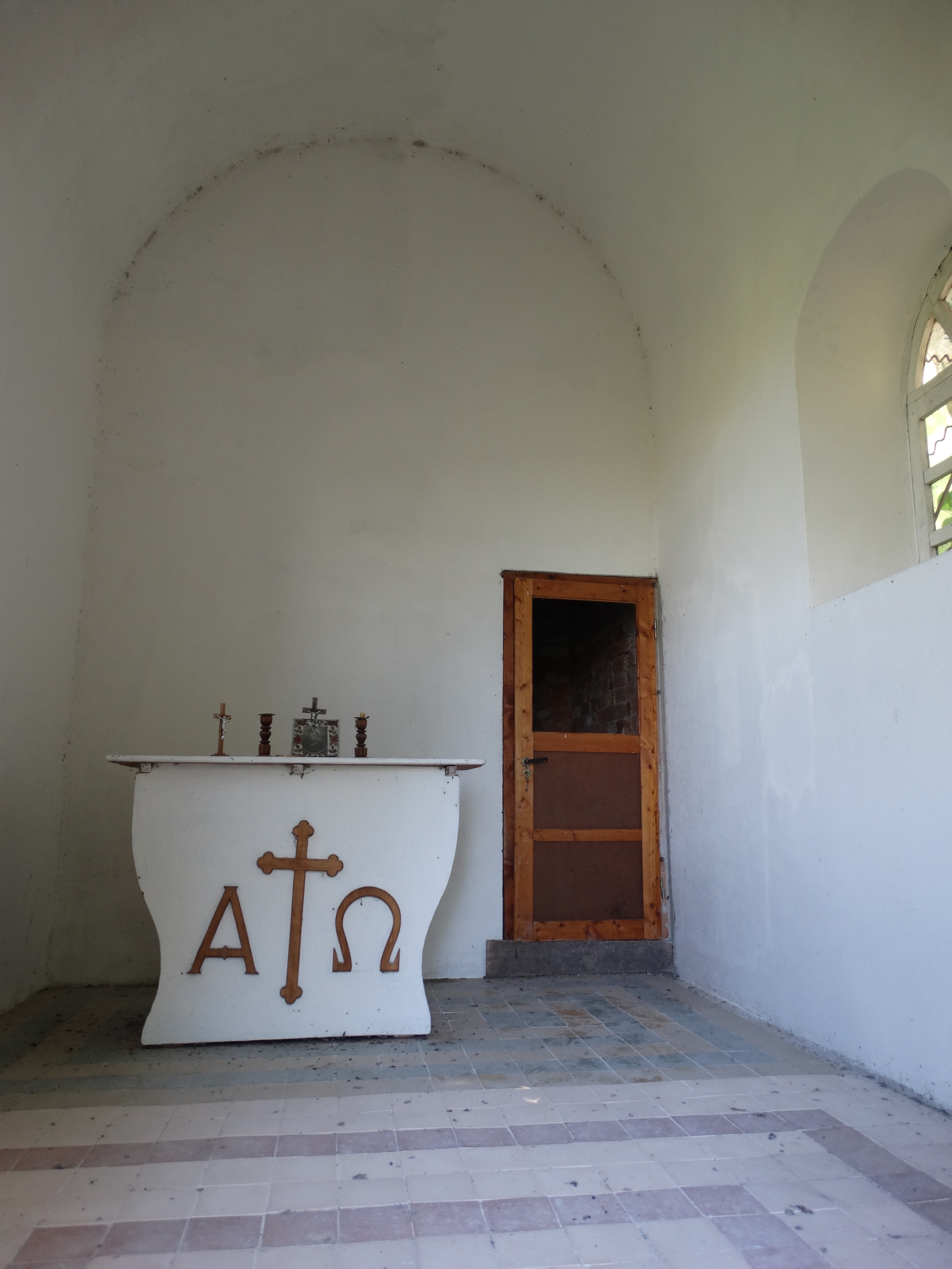 Chapel in Lepšiškė, Raseiniai District, Lithuania